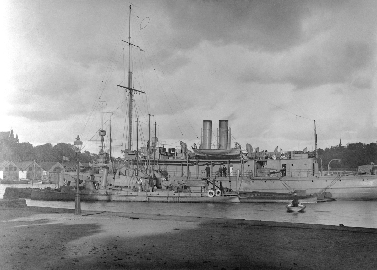 The Swedish Torpedo Boat Rolf of 1882 was renamed Vedettbåt r 6 in 1910. Seen here with the Skäggald that served as depot ship for submarines at the time.